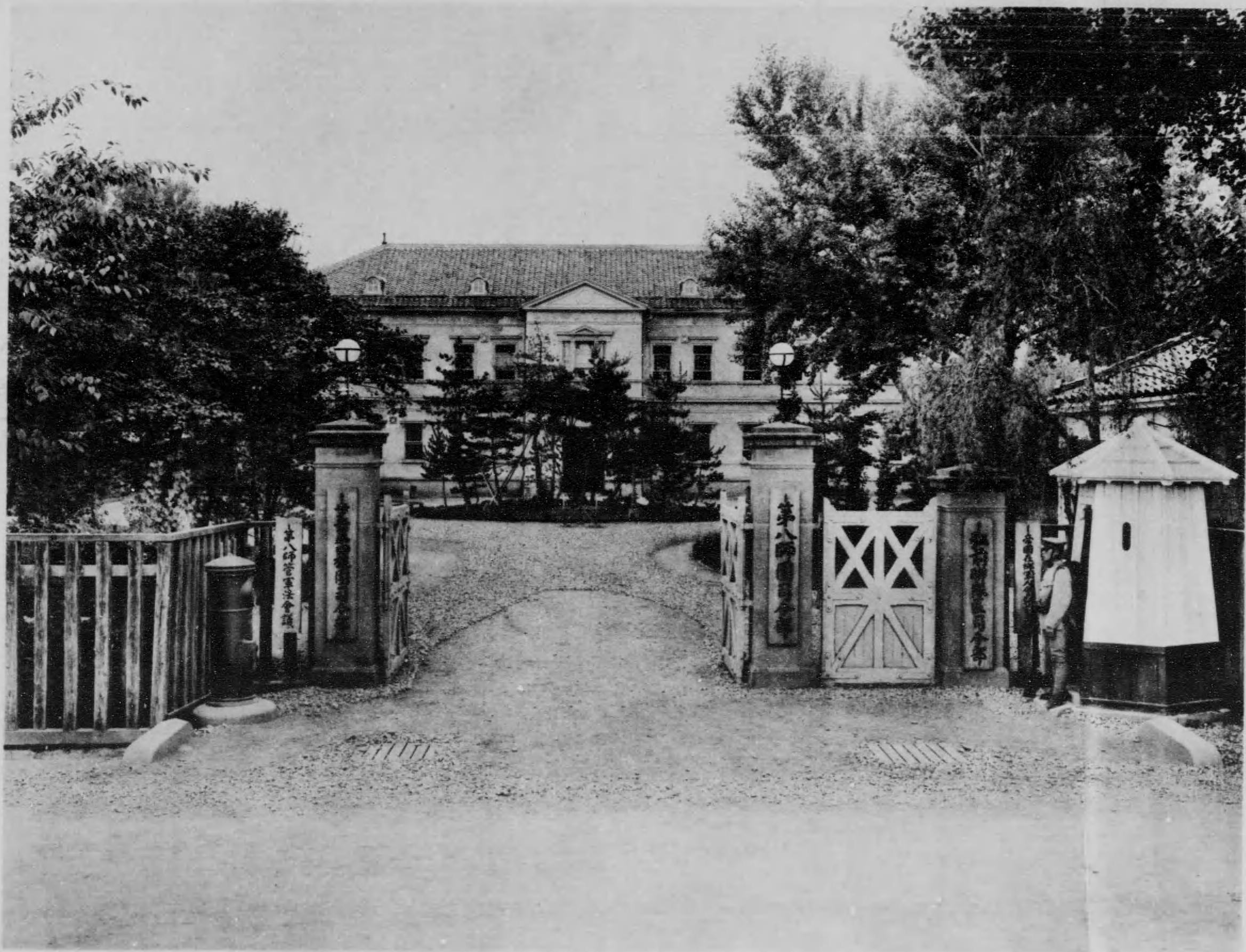 The headquaters of the Eighth Division of Japanese Army. About 1915. Hirosaki, Japan.